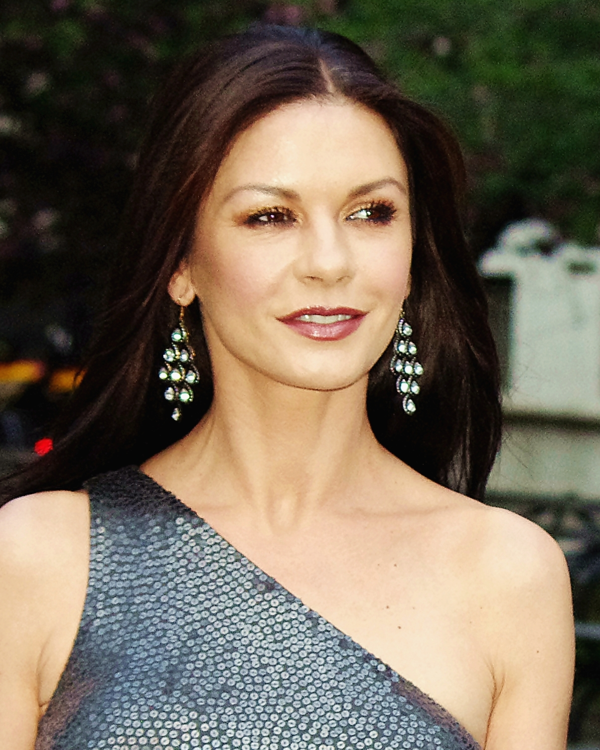 Catherine Zeta-Jones at the Vanity Fair party for the 2012 Tribeca Film Festival.